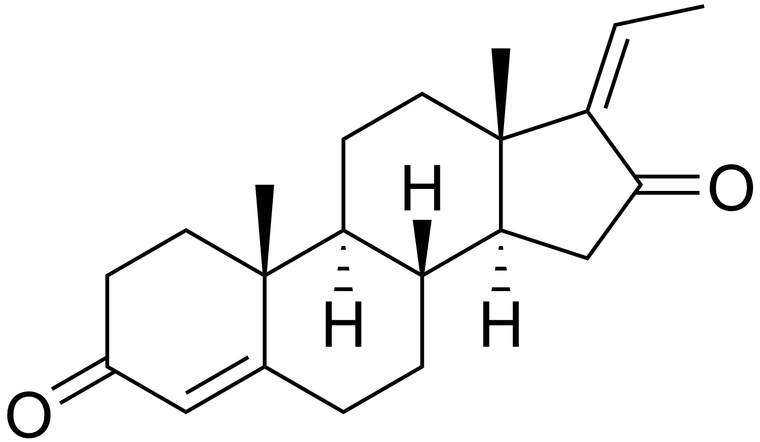 Chemical structure of (Z)-guggulsterone